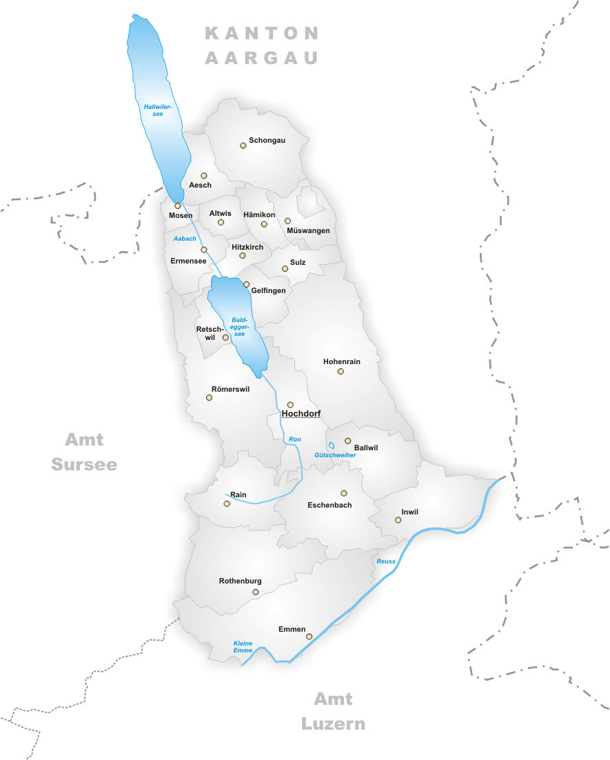 Municipalities of District Hochdorf